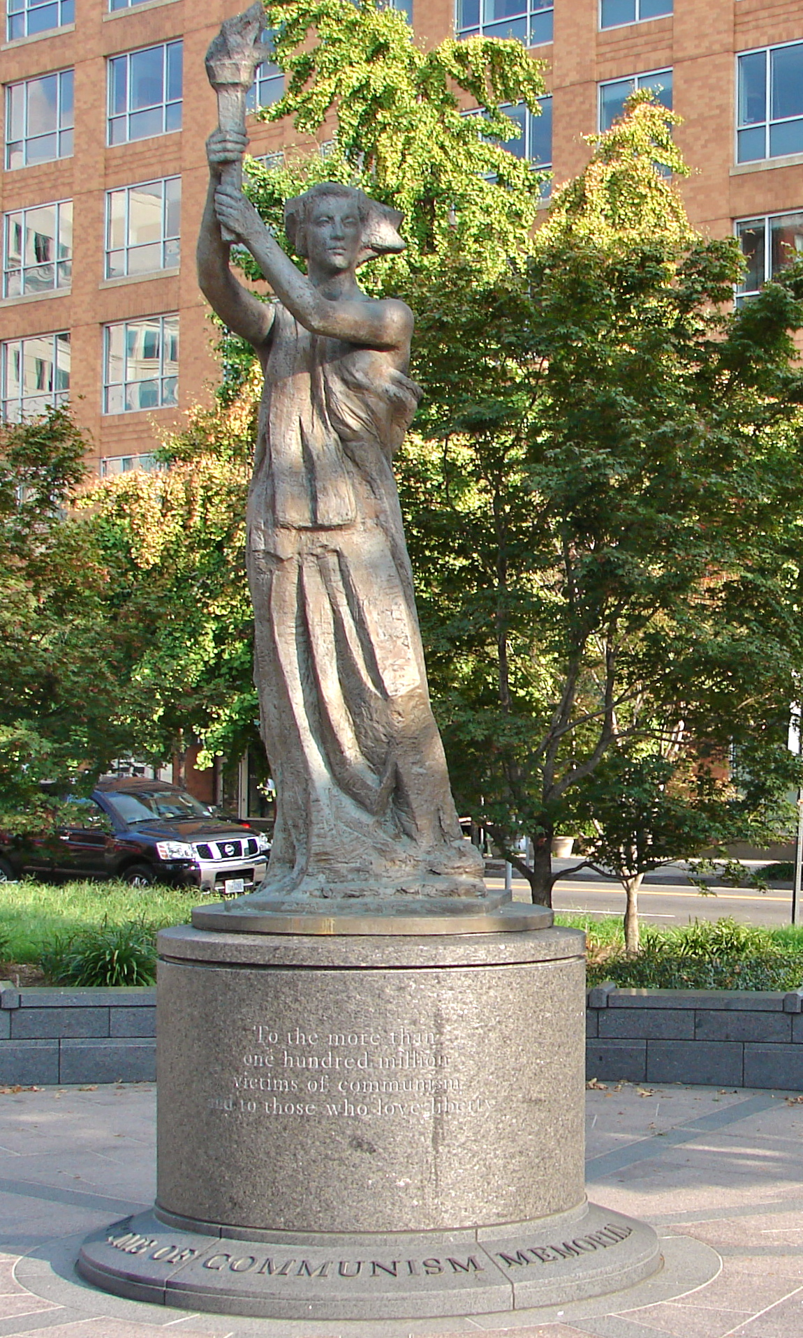 This is my photo of the "Goddess of Democracy" Statue in Washington DC, also known as the "Victims of Communism Memorial" by Thomas Marsh, based on the Tianamen Square "Goddess of Democracy" that was brutally destroyed by the PRC government. Thomas Marsh has very kindly given his commitment to keeping the image of the statue free to use and has licensed the image (the right to photograph the statue) "Creative Commons Attribution-ShareAlike 3.0" (unported) and GNU Free Documentation License (unversioned, with no invariant sections, front-cover texts, or back-cover texts) The OTRS e-mail will follow immediately upon my completing this upload. This covers not only the Victims of Communism Memorial but also the statue in the Newseum in DC, the statue in Vancouver, BC, and the statue in Calgary, Alberta. Attribution should read "Statue by Thomas Marsh" or "Statue recreated by Thomas Marsh" or similar.